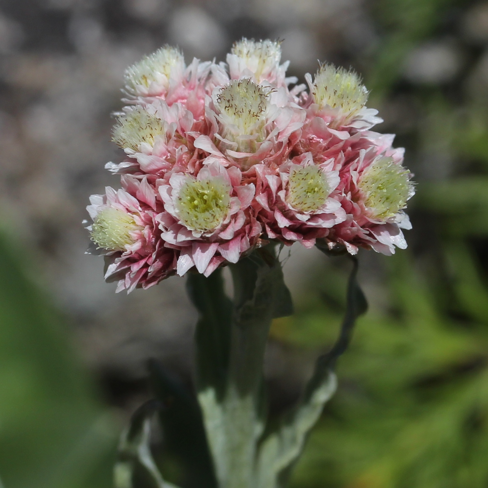 Flowers of Anaphalis alpicola, in Mount Kasa, Takayama, Gifu prefecture, Japan.